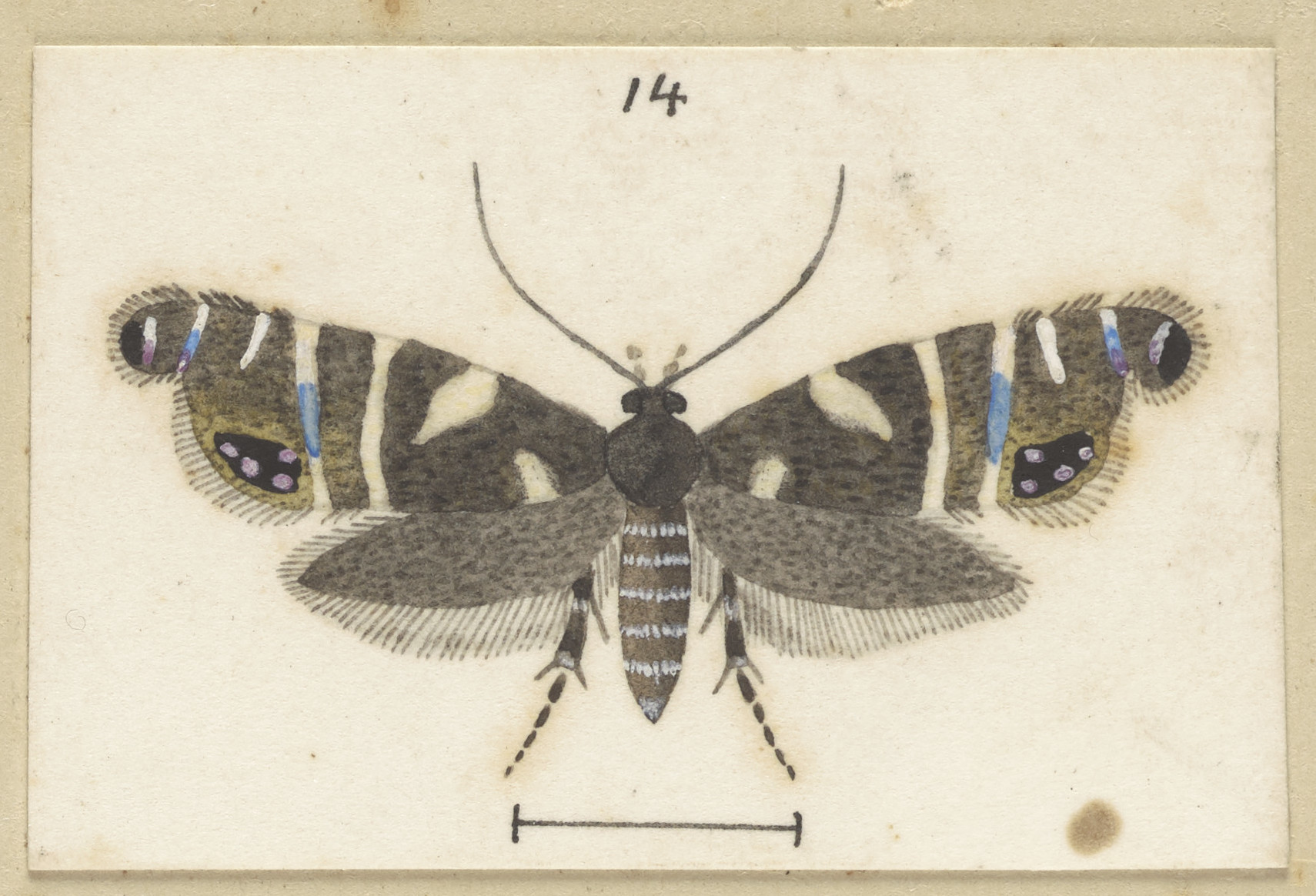 Watercolour by George Hudson. Plate XLVI. The butterflies and moths of New Zealand.